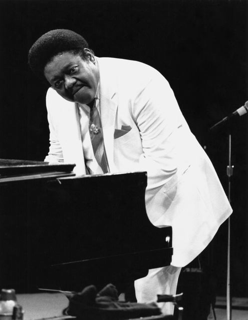 Fats Domino performing onstage in New York. Possibly 1980s photo.